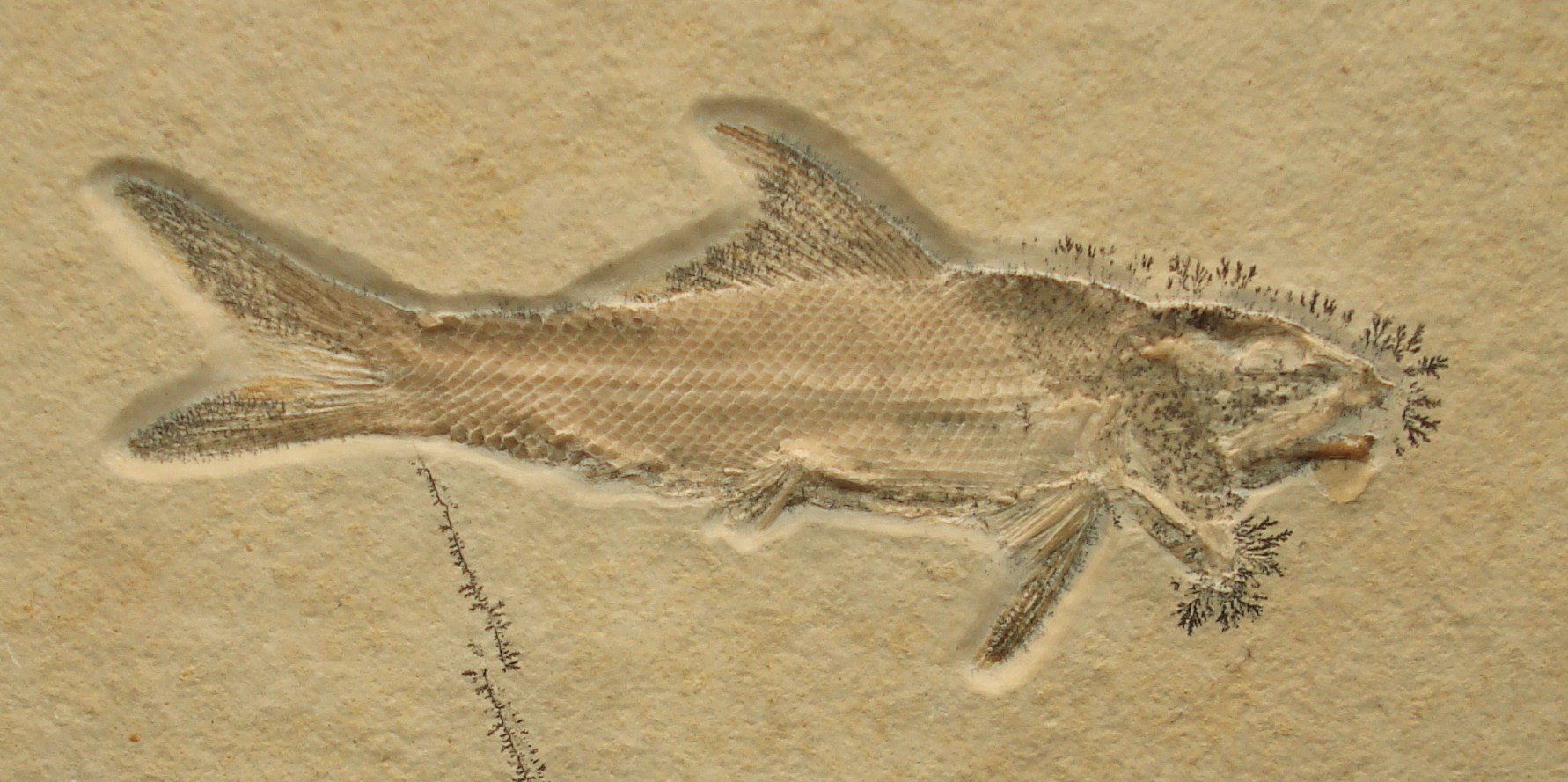 fossil of ophiopsis